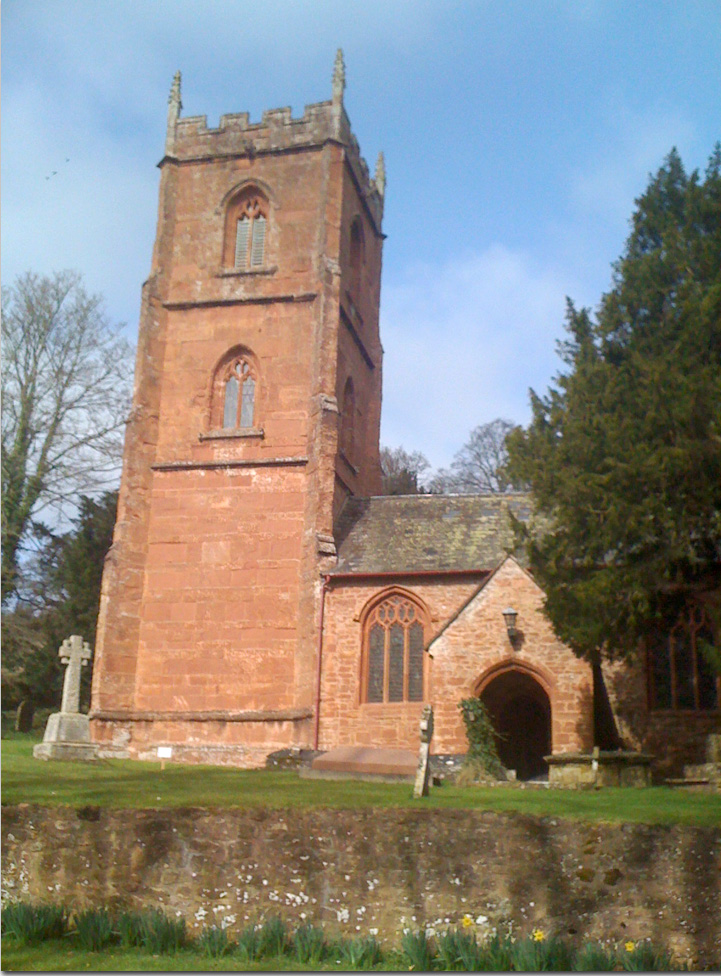 Church of StPeter and StPaul Combe Florey